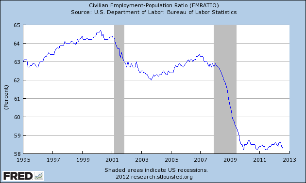 U.S. employment-population ratio, 1995-2012